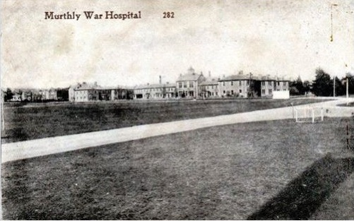 Old postcard of Murthly War Hospital